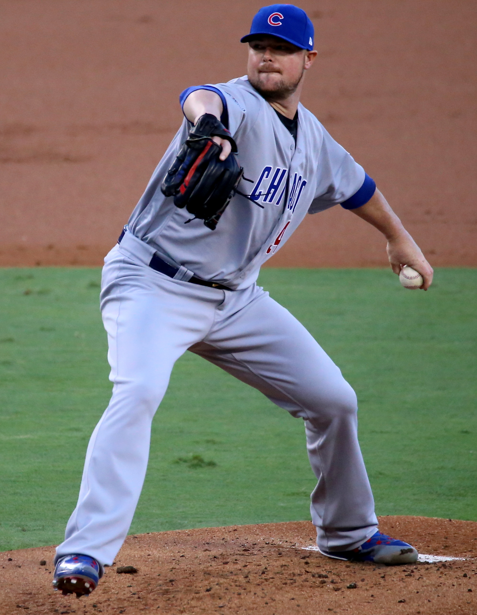 Cubs starter Jon Lester delivers a pitch during the first inning of #NLCS Game 5.